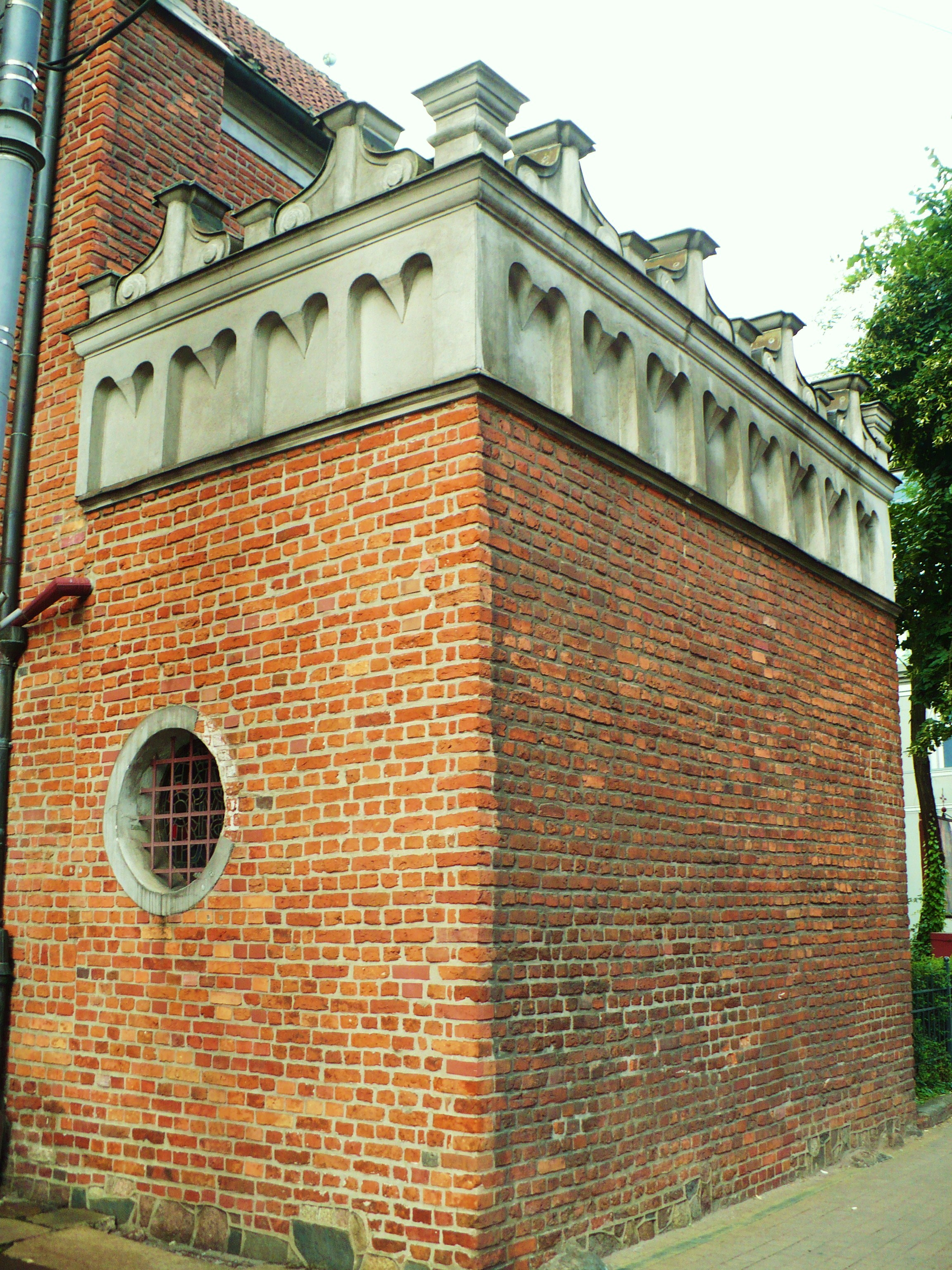 Chapel in Bydgoszcz